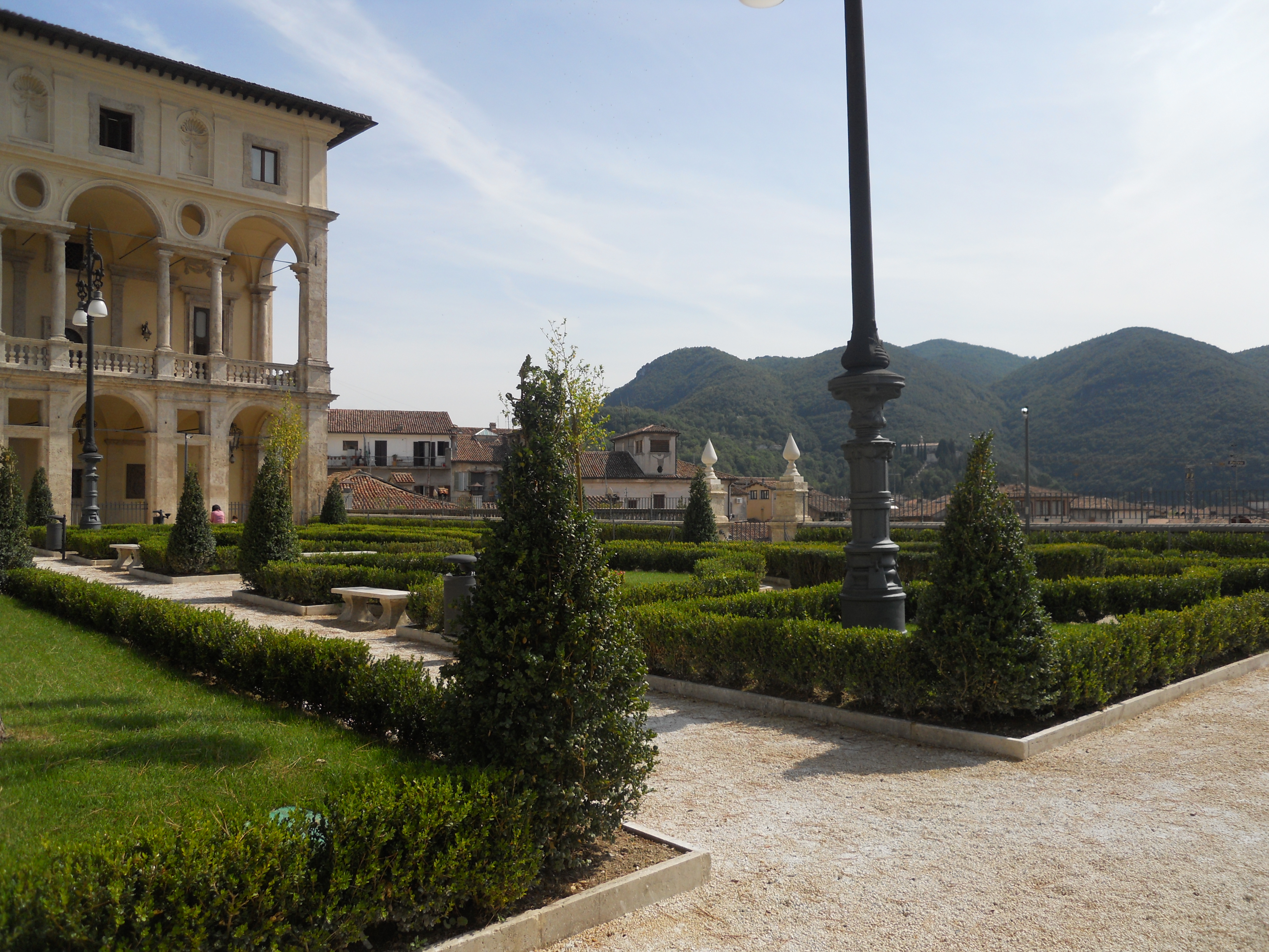 Vincentini palace gardens, with the so called Vignola's loggia - Rieti, Italy